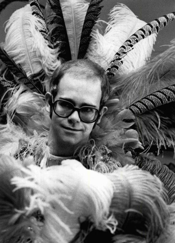 Publicity photo of Elton John from the 1975 Rock Music Awards.